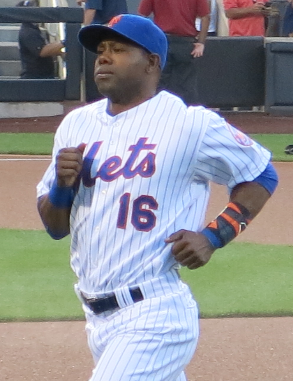 Alejandro De Aza of the New York Mets, August 2, 2016.